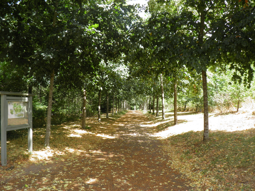 Lane in the park of La Garenne Lemot.